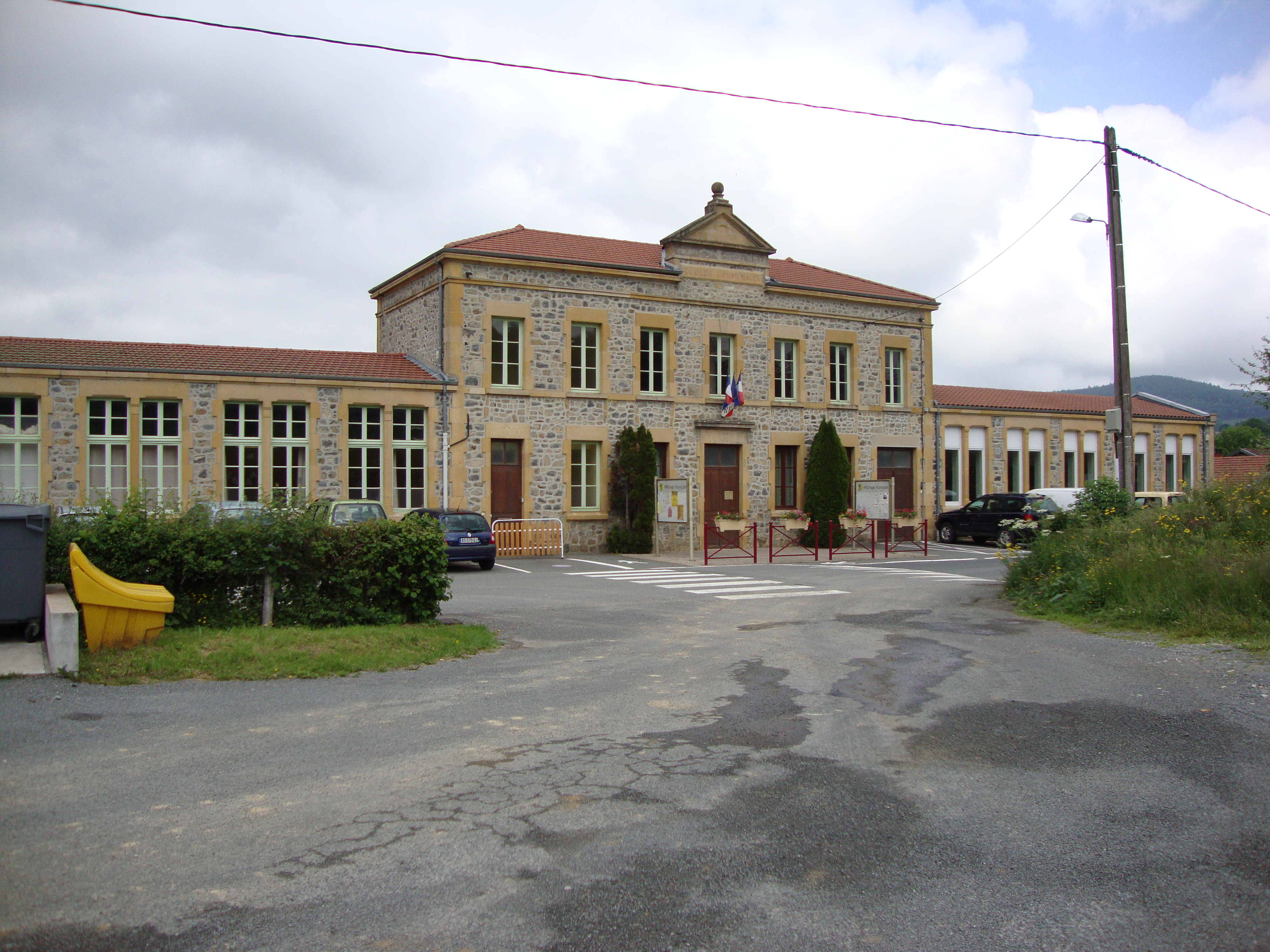 Chénelette (Rhône, Fr) mairie-école